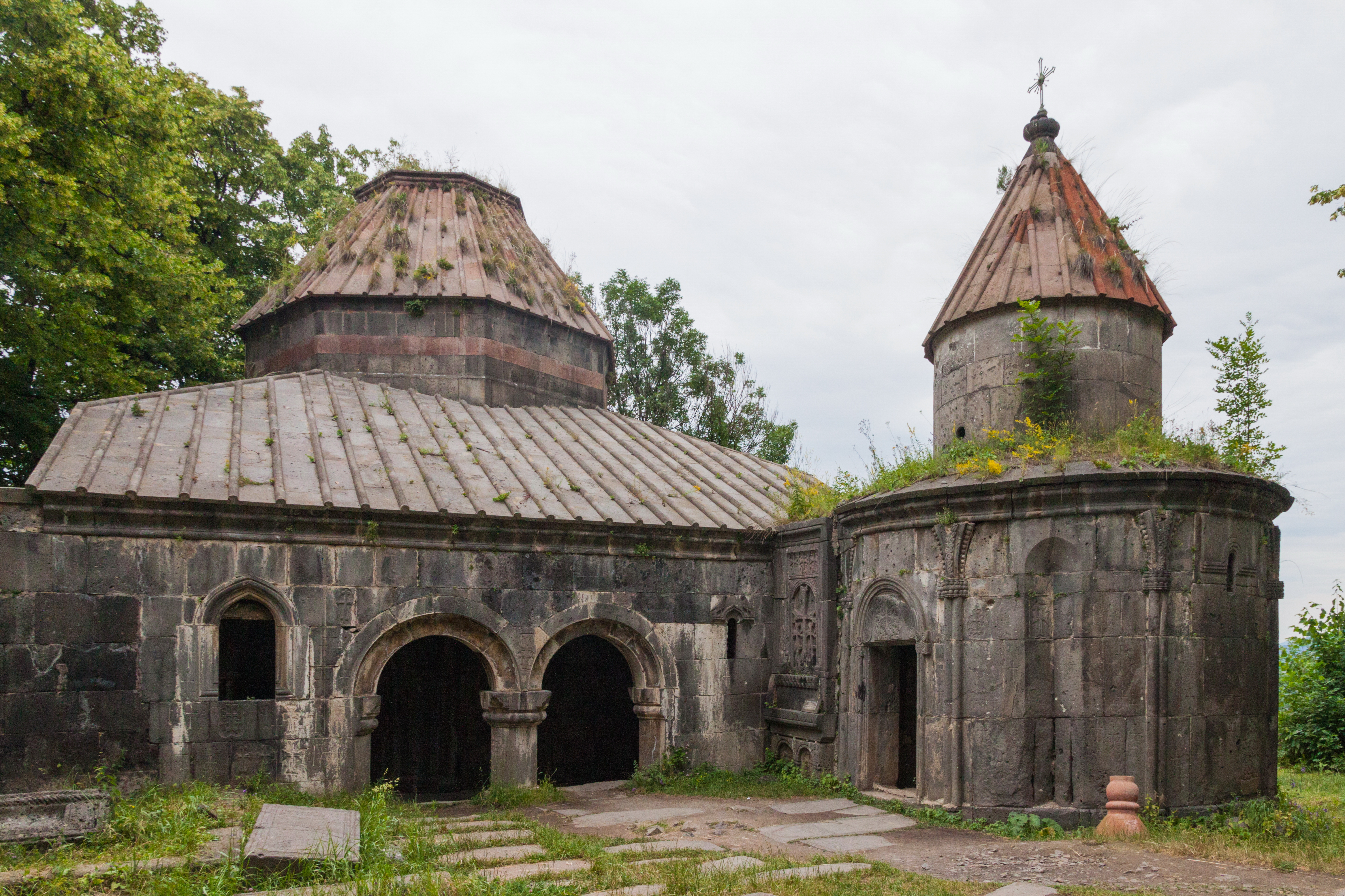 Library and St. Grigor chapel. Sanahin Monastery. Sanahin, Lori Province, Armenia.